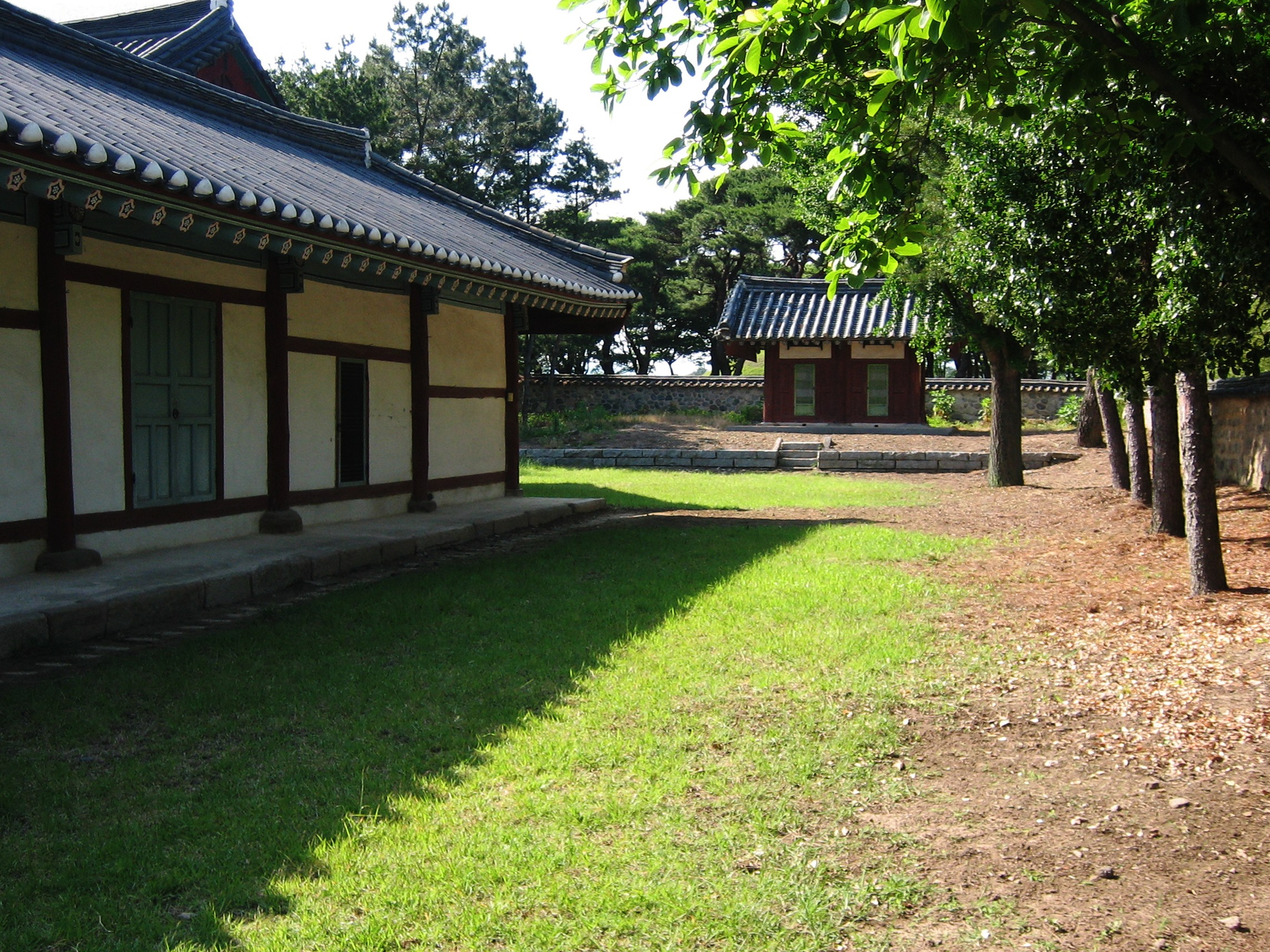 A view of Gyeongju Hyanggyo located in Gyeongju, North Gyeongsang province, South Korea